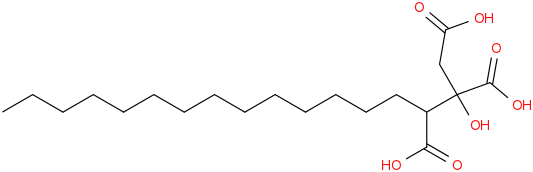 The chemical structure of α-tetradecylcitric acid - The main toxin in the woolly chanterelle/gomphus (Turbinellus floccosus). Image was created with